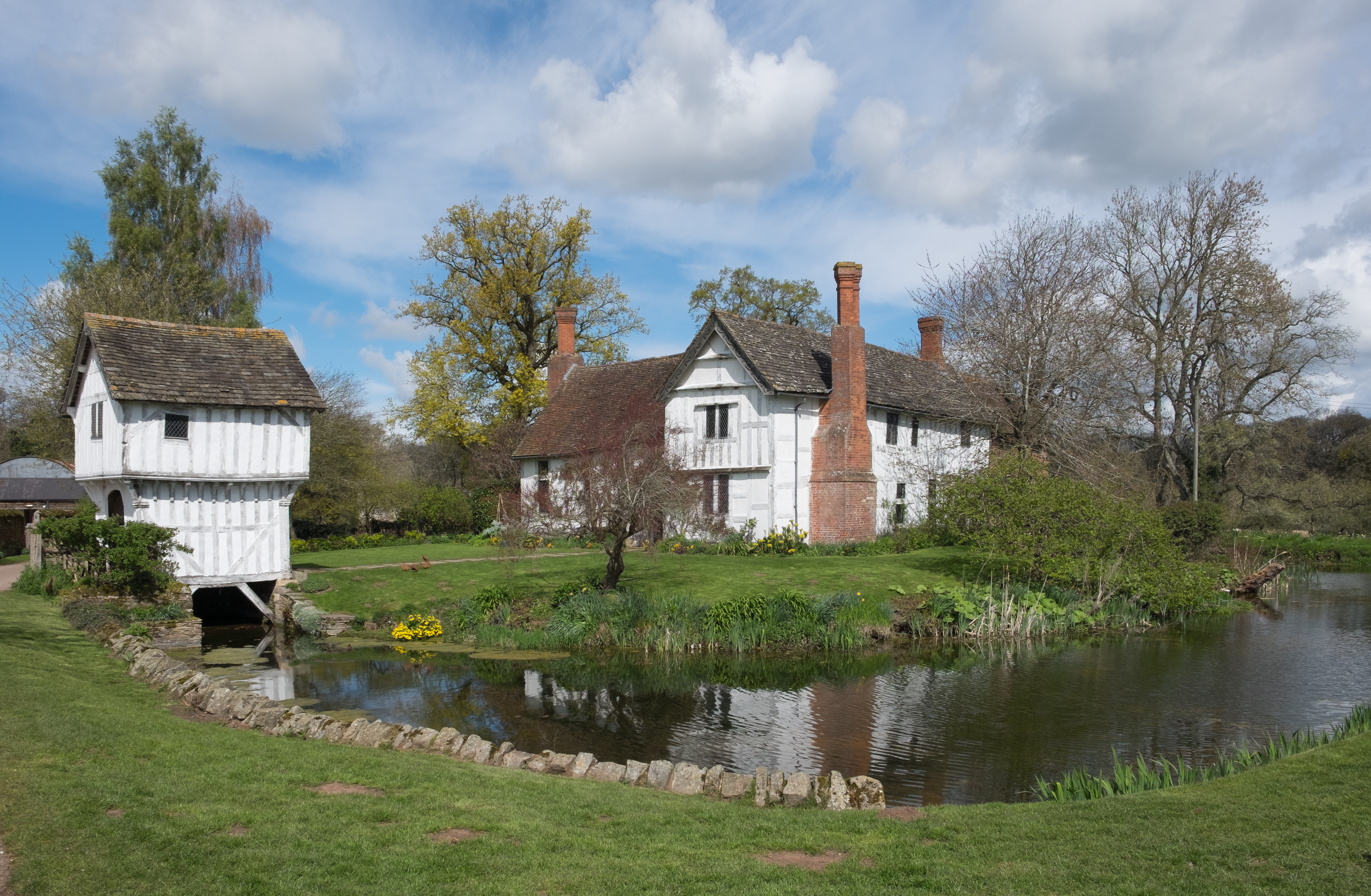 The 15th-century gatehouse and manor house at Brockhampton Estate. These are grade I listed buildings in Herefordshire, England.